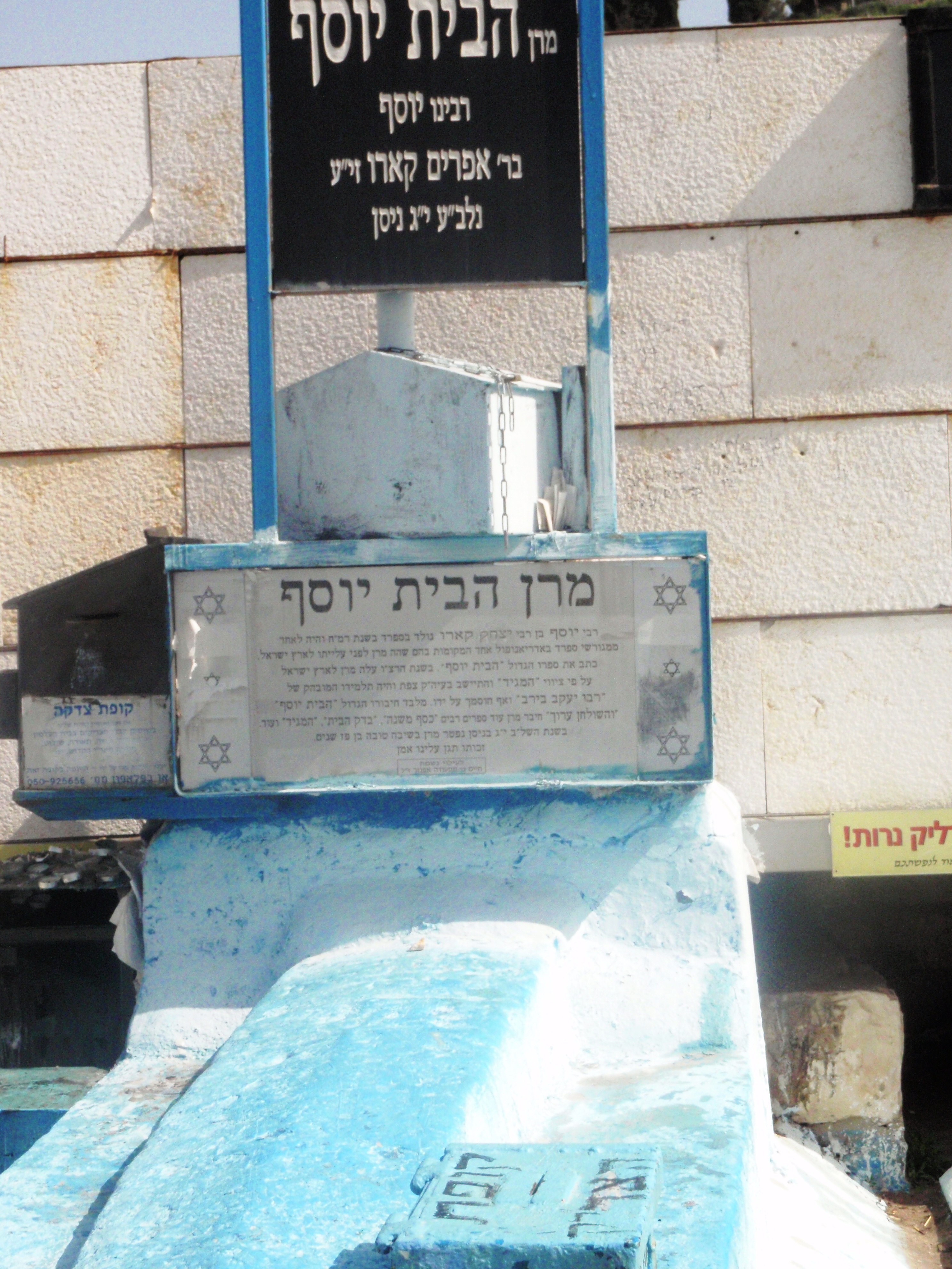 Grave of Joseph ben Ephraim Karo